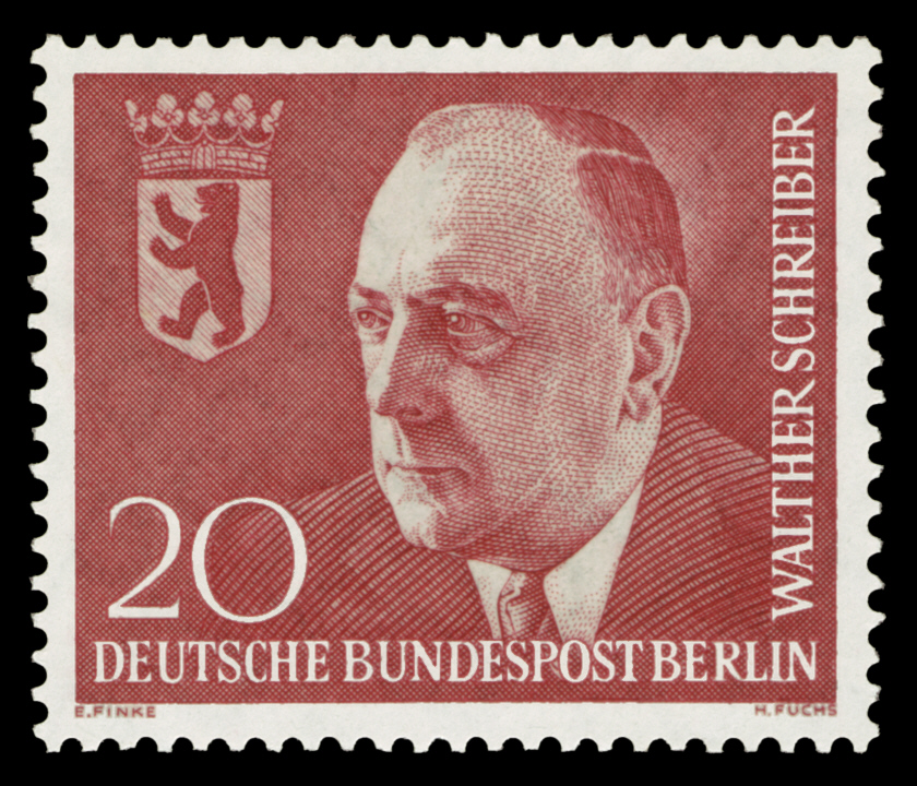 stamp of Berlin for the 2nd day of death of Walther Schreiber (1884-1958) Graphics by Fincke Ausgabepreis: 20 Pfennig First Day of Issue / Erstausgabetag: 30. Juni 1960 Michel-Katalog-Nr: 192 (Berlin)